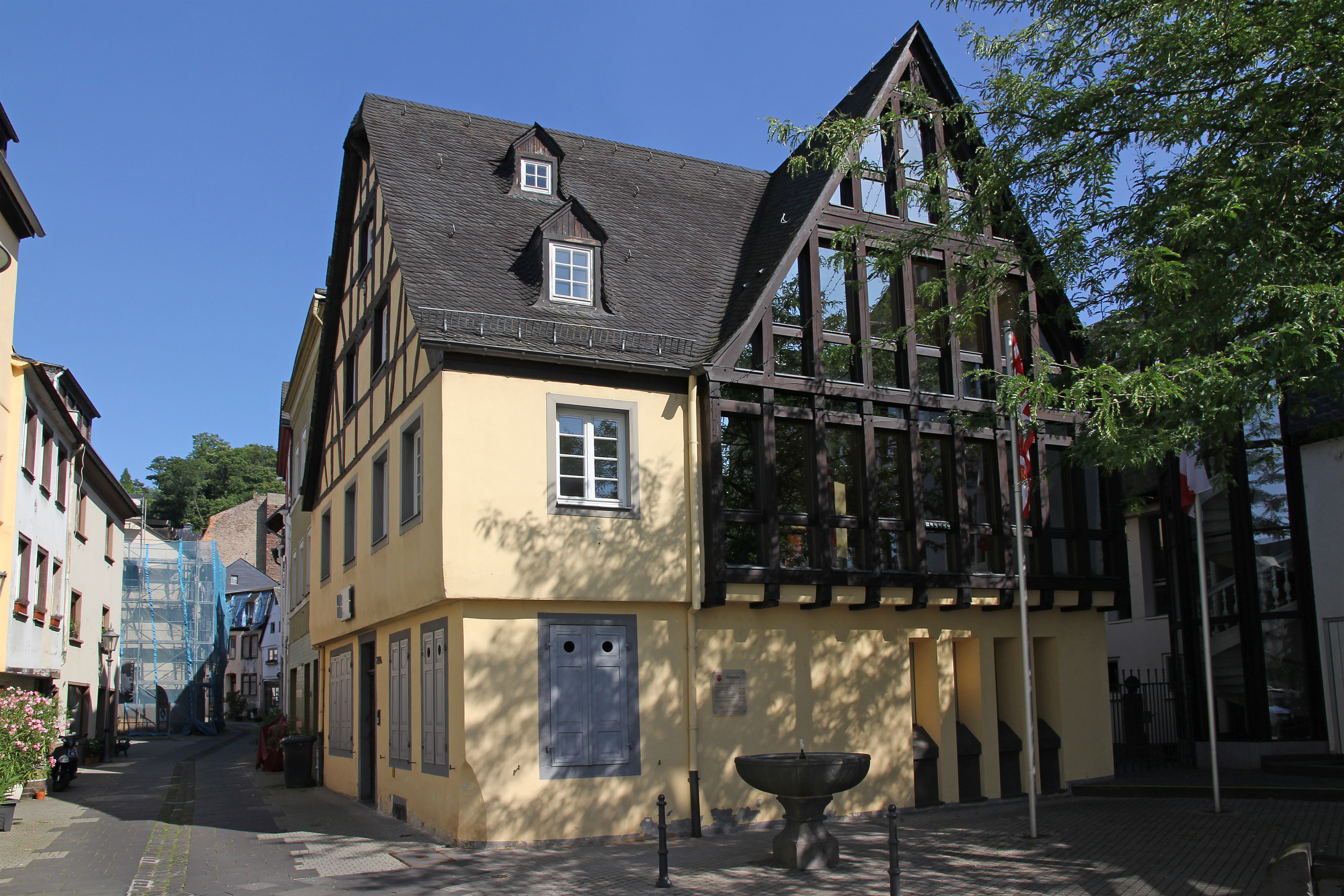 Mother-Beethoven-House in Koblenz